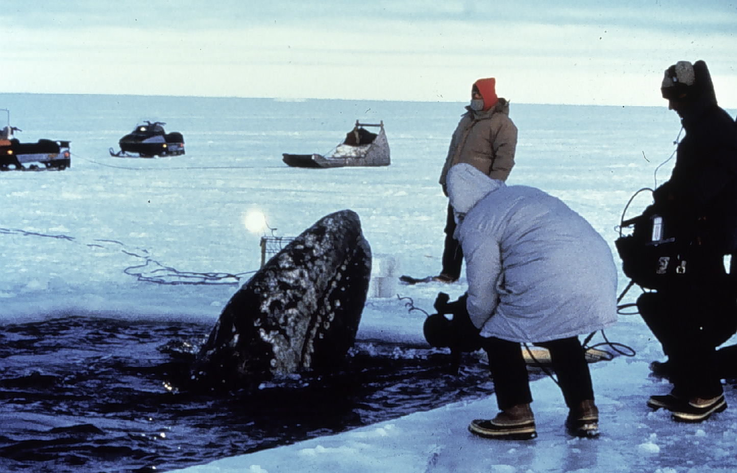 Gray whale trapped in the ice in the Bering Sea. Joint American-Russian effort ultimately saved 2 out 3 trapped whales; Location: Beaufort Sea, Alaska